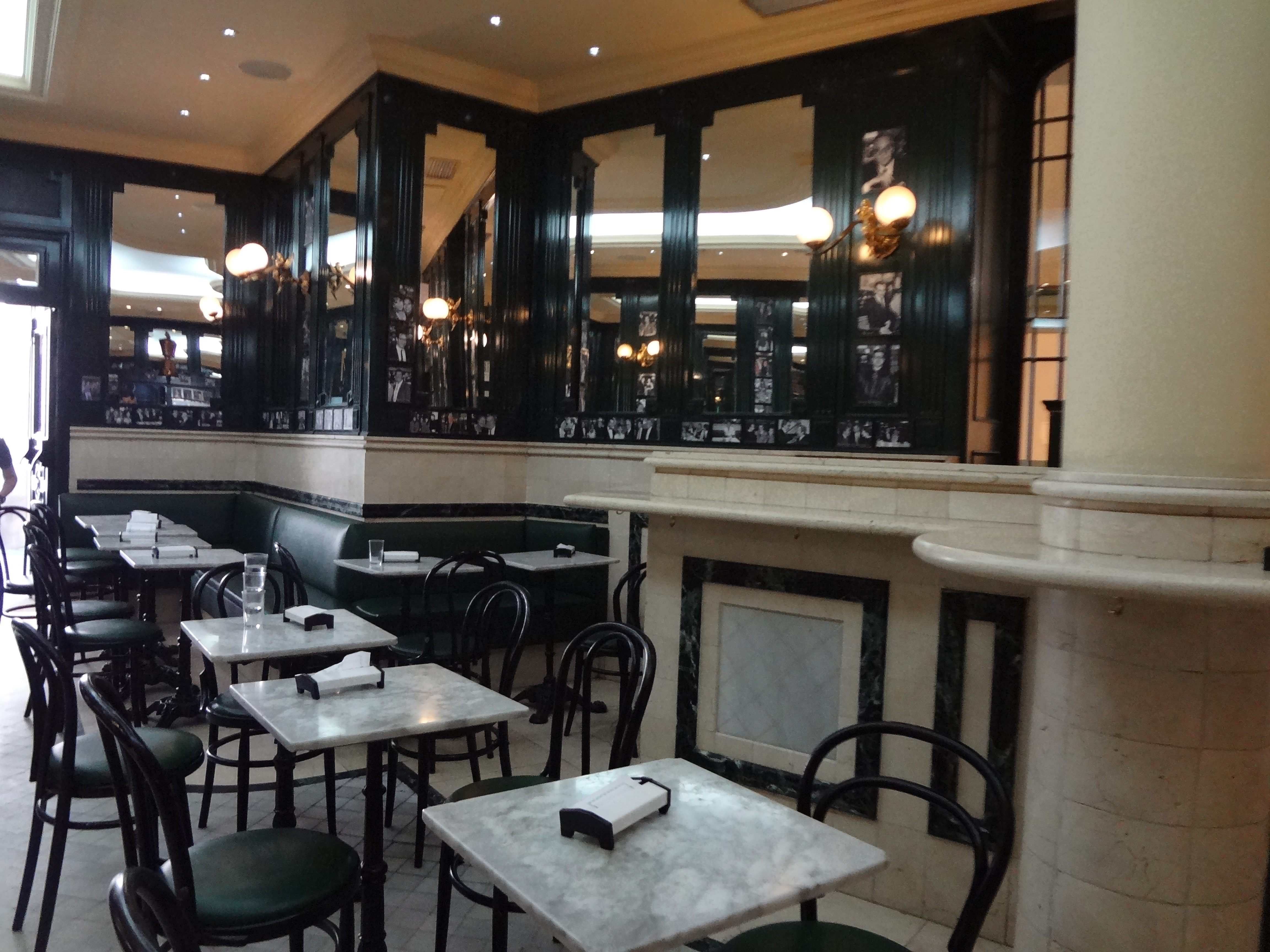 Inside Chocolatería San Ginés in Madrid, Spain '